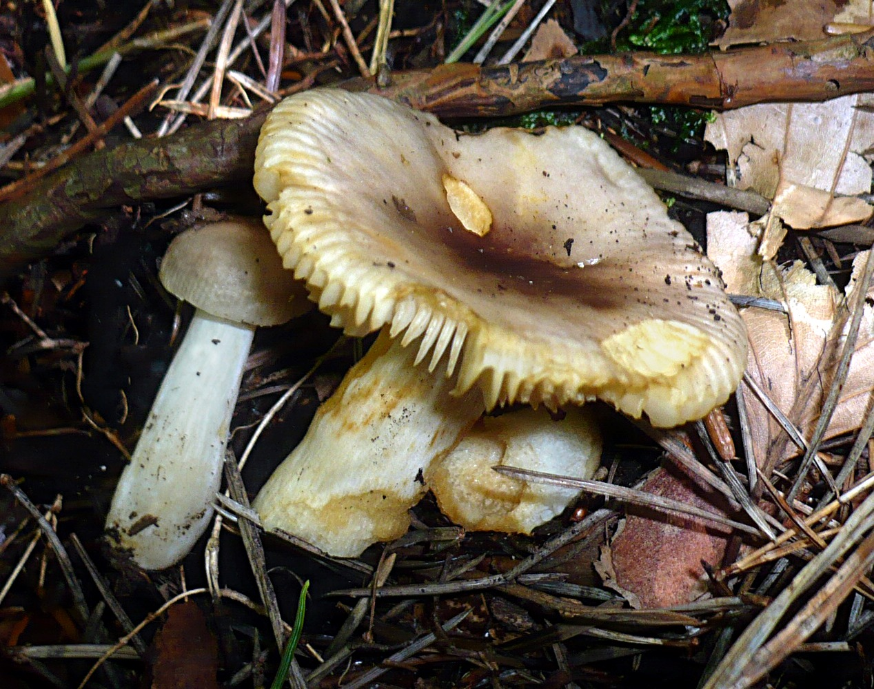 Russula puellaris Fr. Image location: Greimkogel, Schwarzenbach, Bezirk Wiener Neustadt, Lower Austria, Austria Recognized by sight For more information about this, see the observation page at Mushroom Observer.